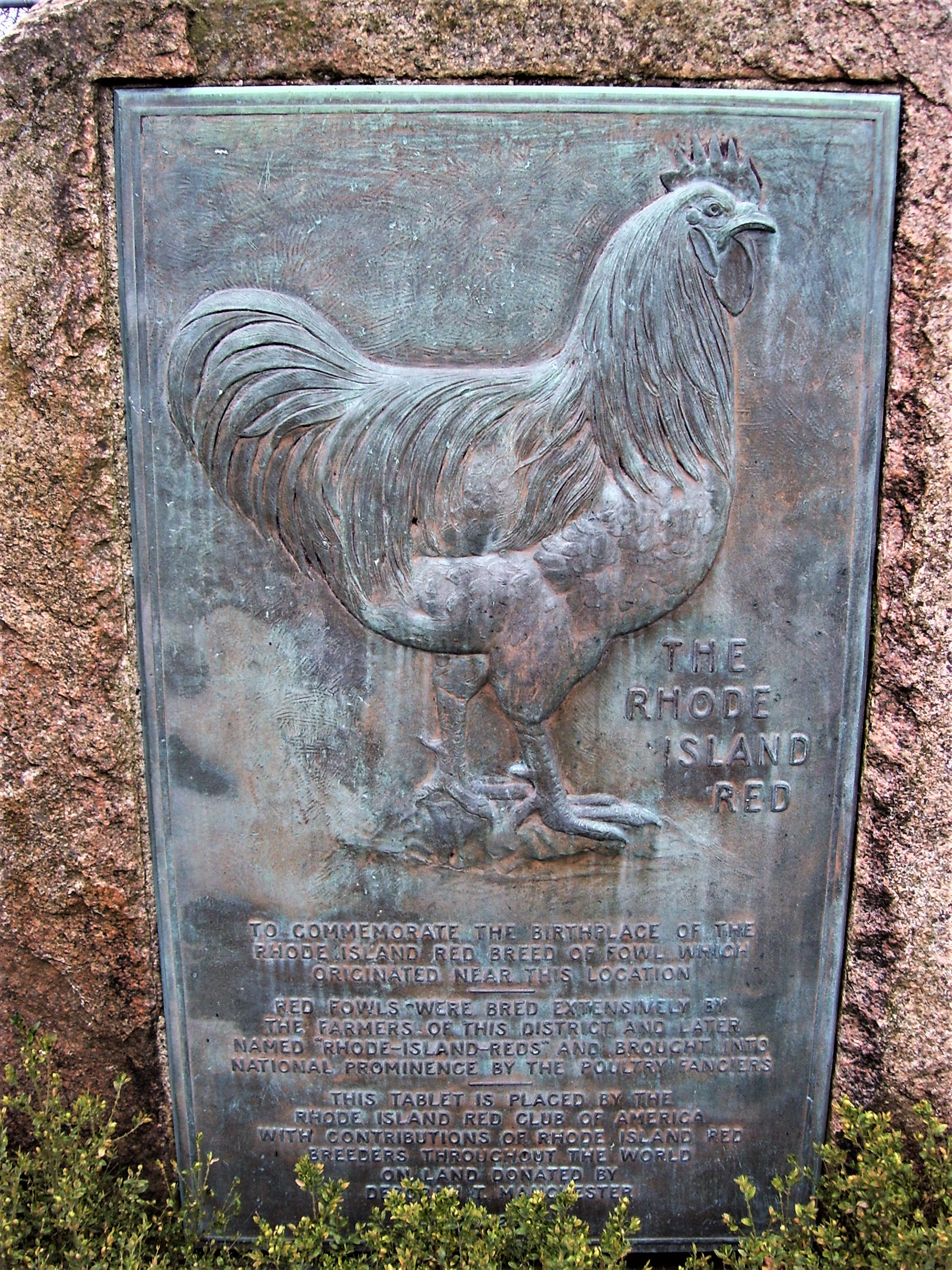 This is my 2008 photo of the Rhode Island Red monument in Little Compton Rhode Island.